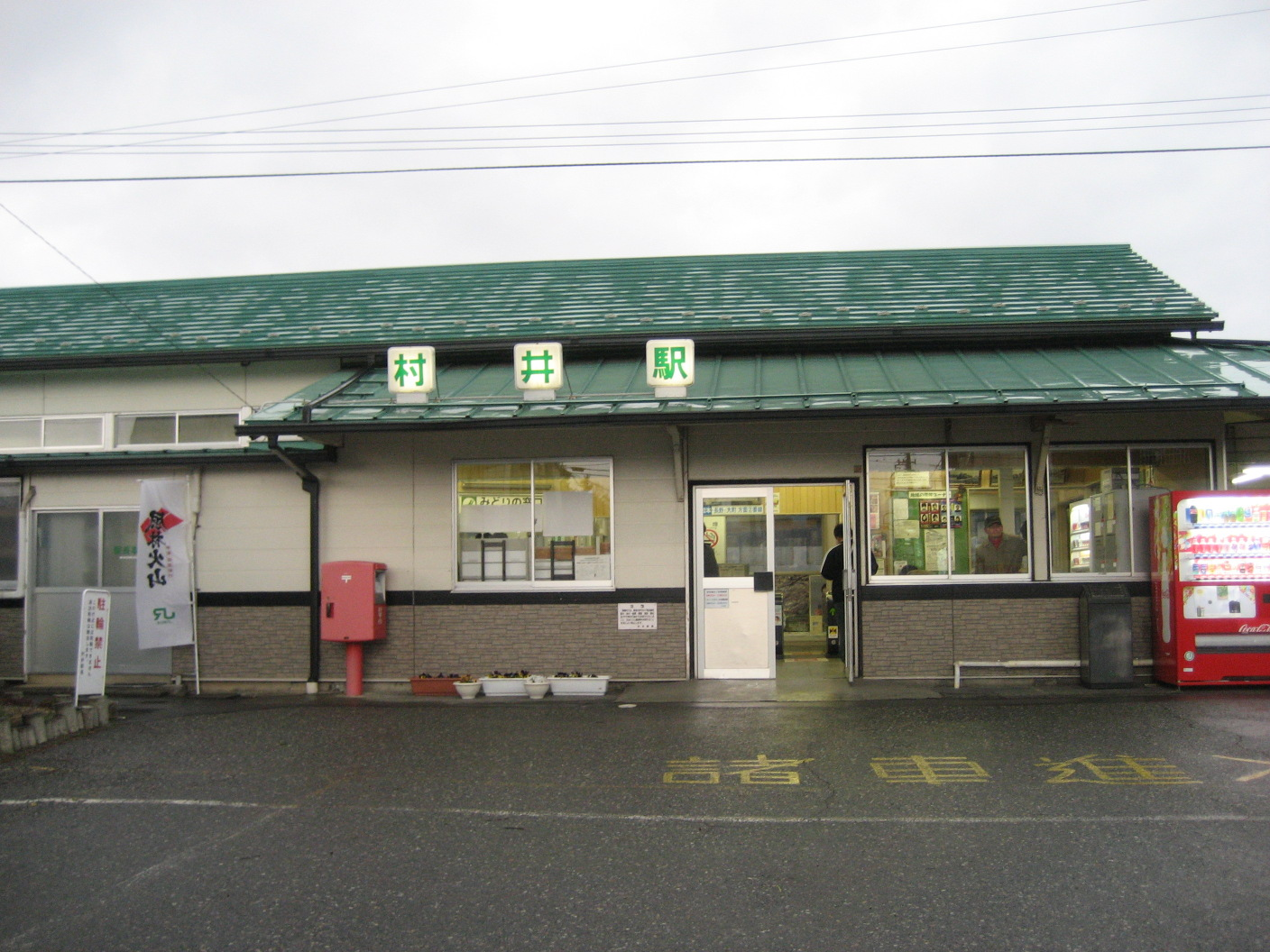 JR East Murai Station